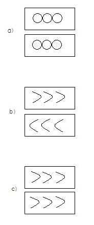 A picture depicting the fracture surface morphologies due to microvoid coalescence